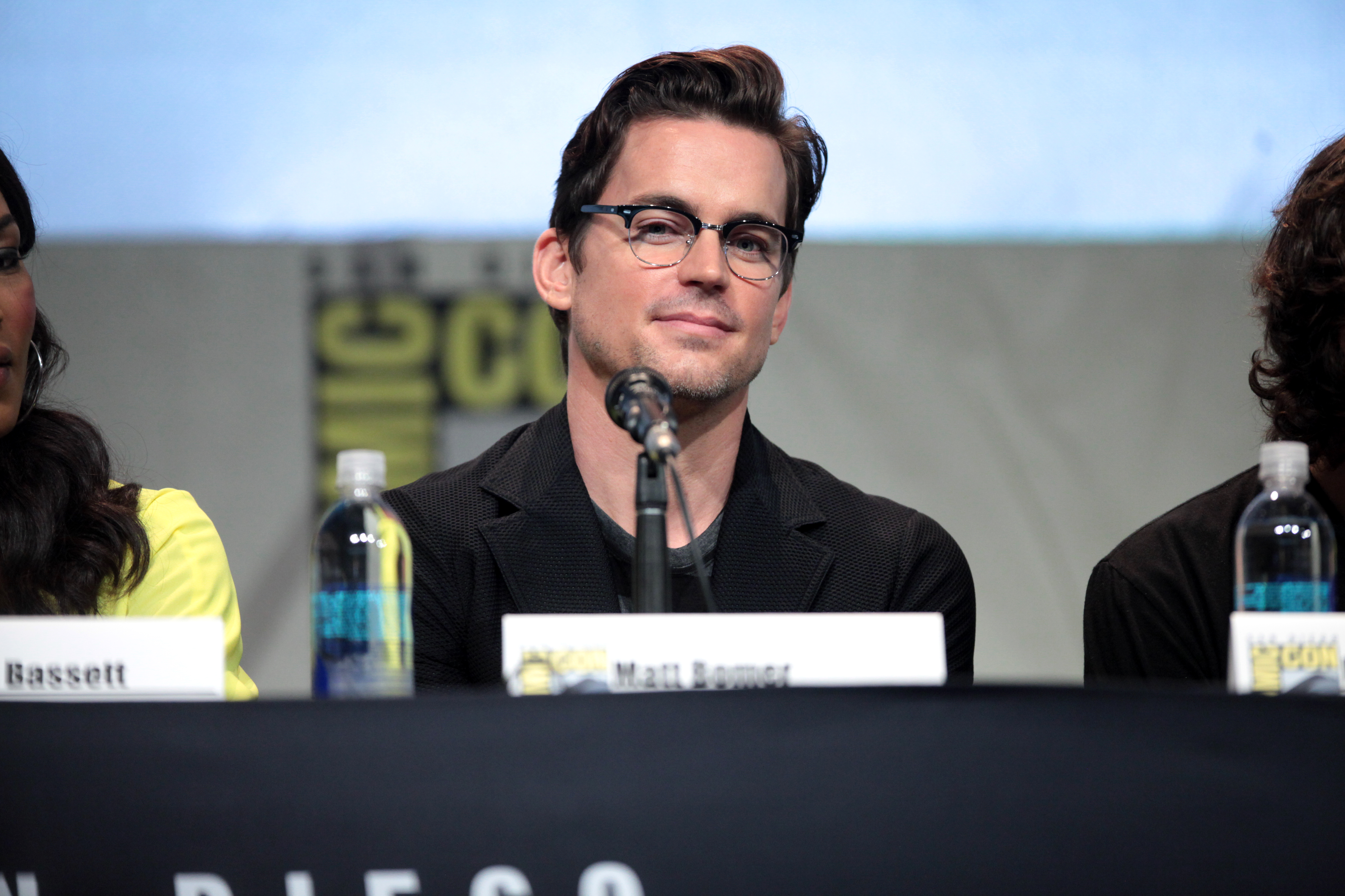 Matt Bomer speaking at the 2015 San Diego Comic Con International, for "American Horror Story", at the San Diego Convention Center in San Diego, California.